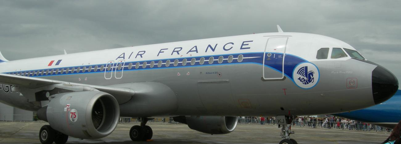 First livery of Air France's aircraft until 1970. Here an Airbus A320 which didn't existed at those times.